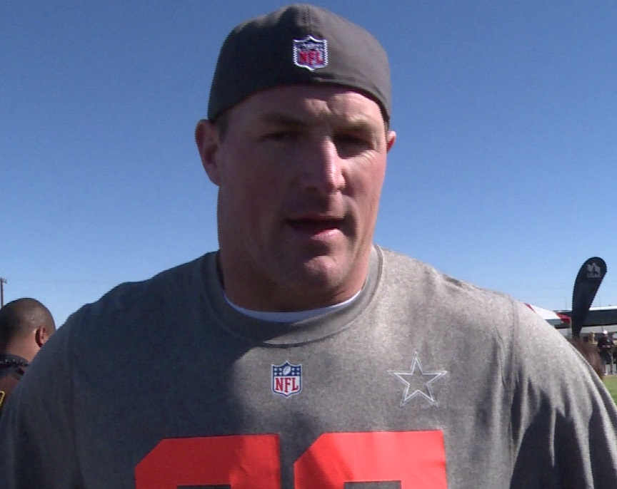 Jason Witten at 2015 Pro Bowl practice